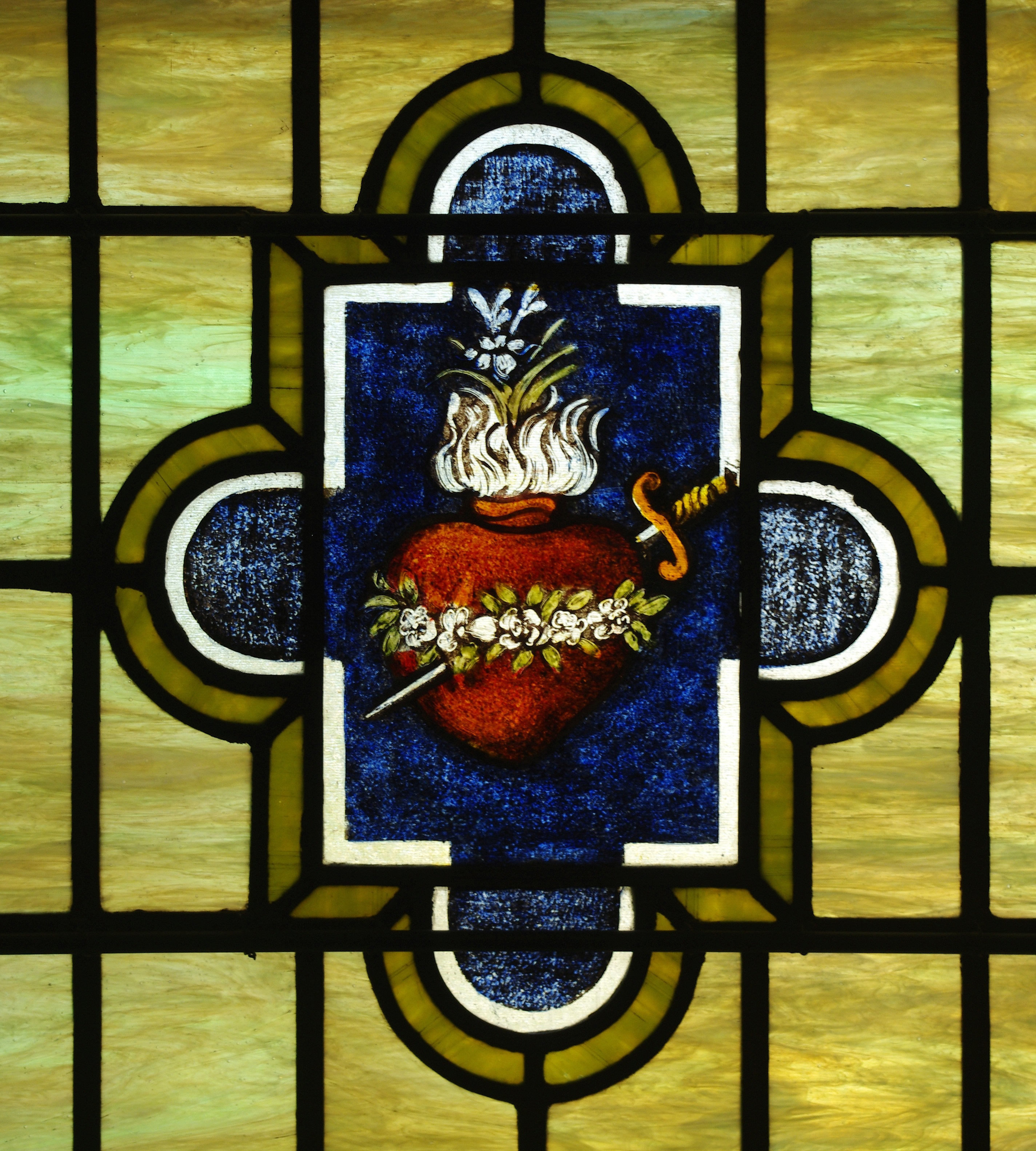 Saint John the Baptist Church (Harrison, Ohio) - interior, stained glass, Immaculate Heart, detail